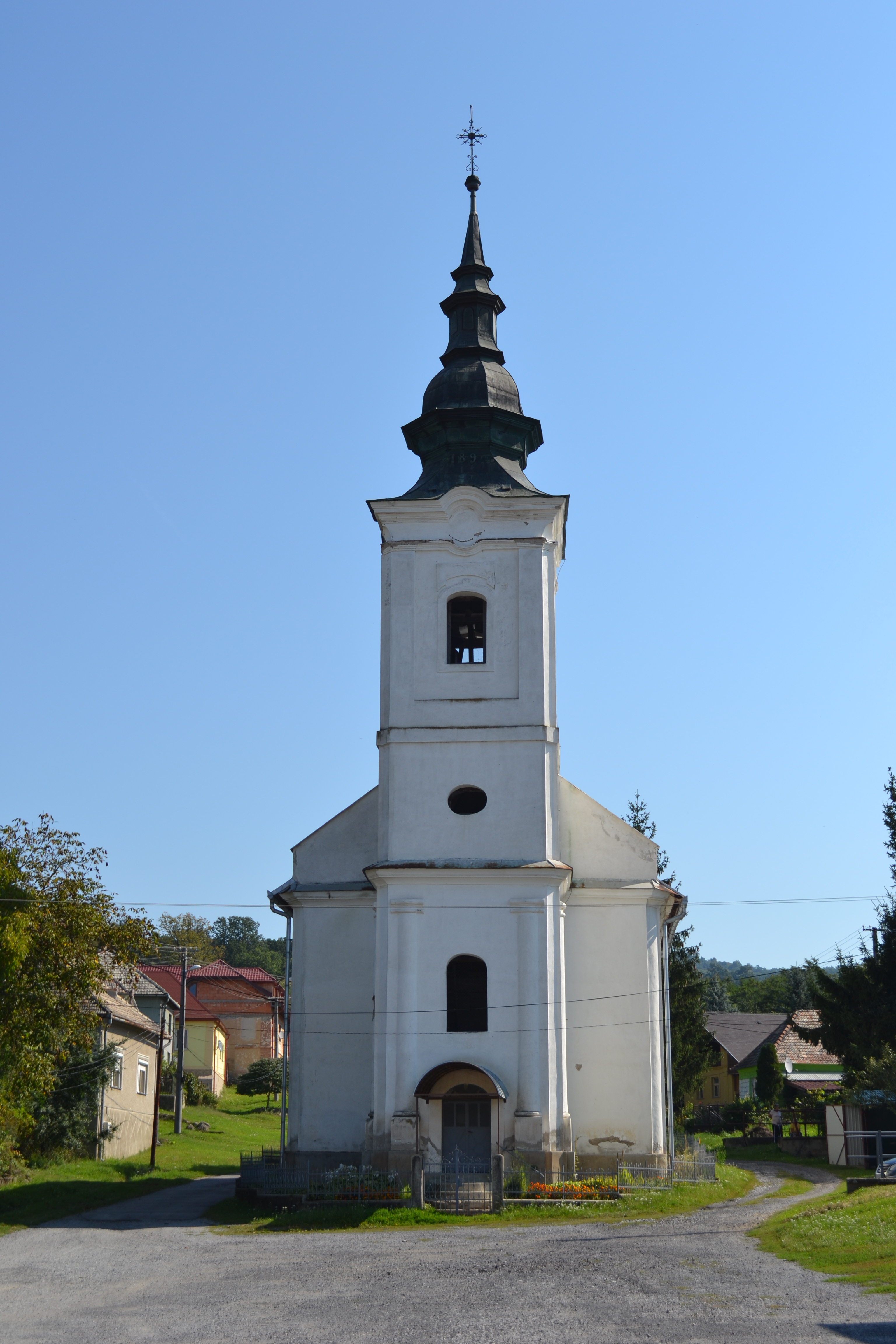 Evangelic church in Teplý Vrch